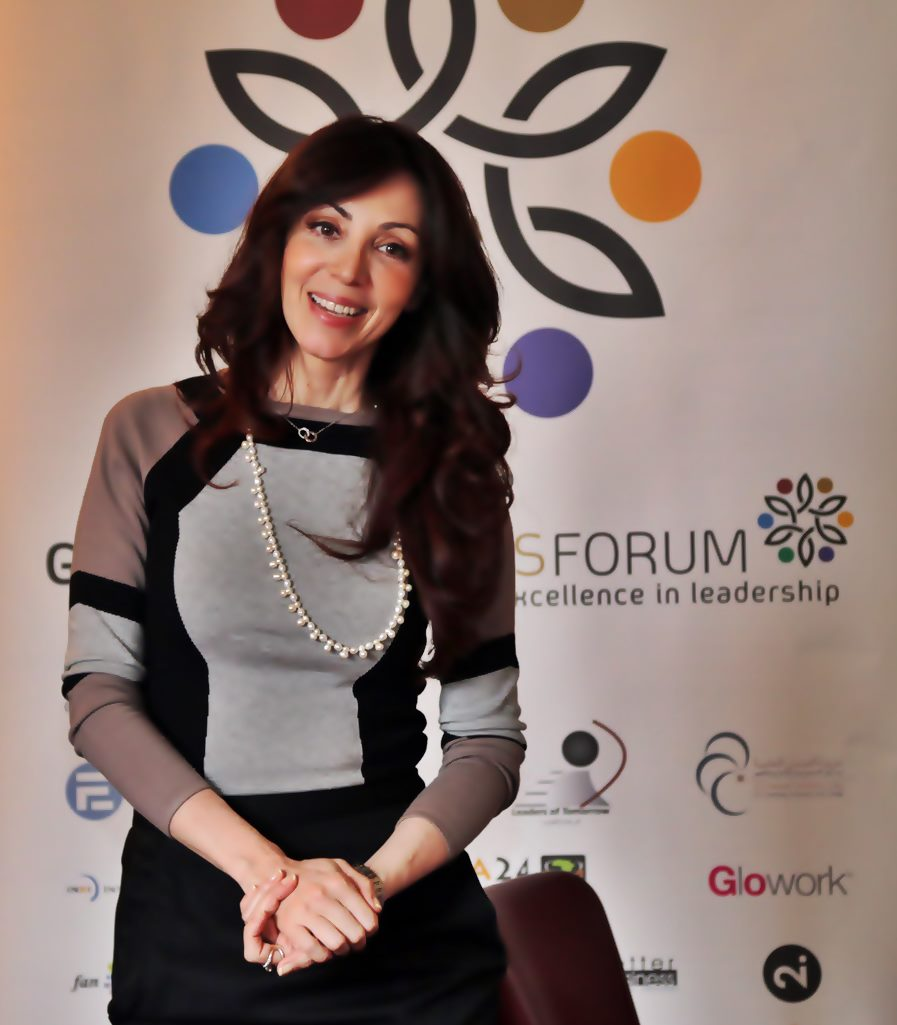 March 27, 2014 London UK: Elizabeth Filippouli addresses Global Thinkers Forum 'Leadership & Collaboration' at HomeHouse in London on March 27, 2014.